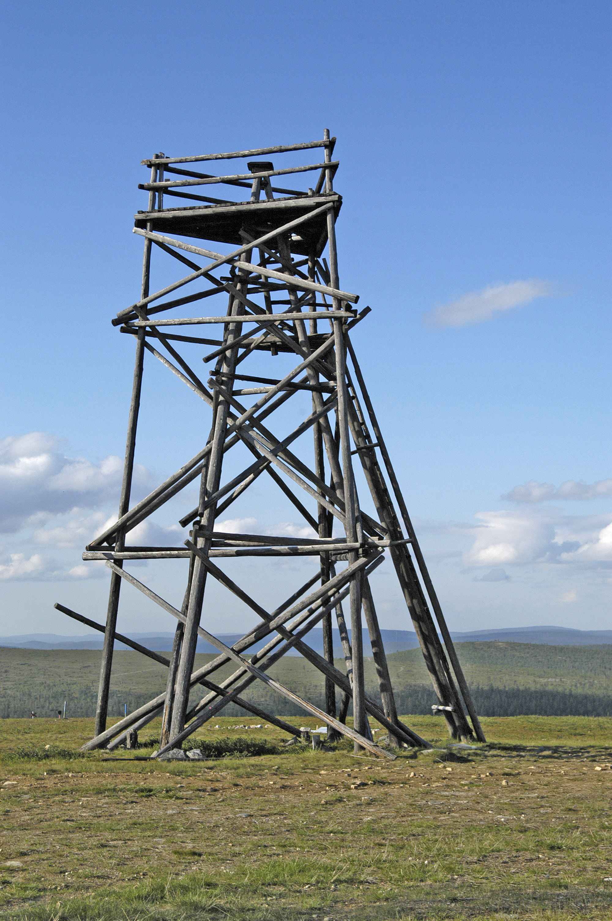 Old watchtower in Kaunispää, Inari, Finland in July 2007